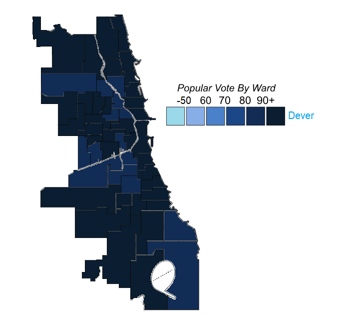 Results of the 1927 Chicago mayoral Democratic primary by ward. Data is courtesy of the Chicago Tribune.